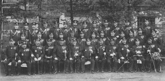 A group of the senior admirals with their staffs, taken on admiral Togo's Triumphal Return